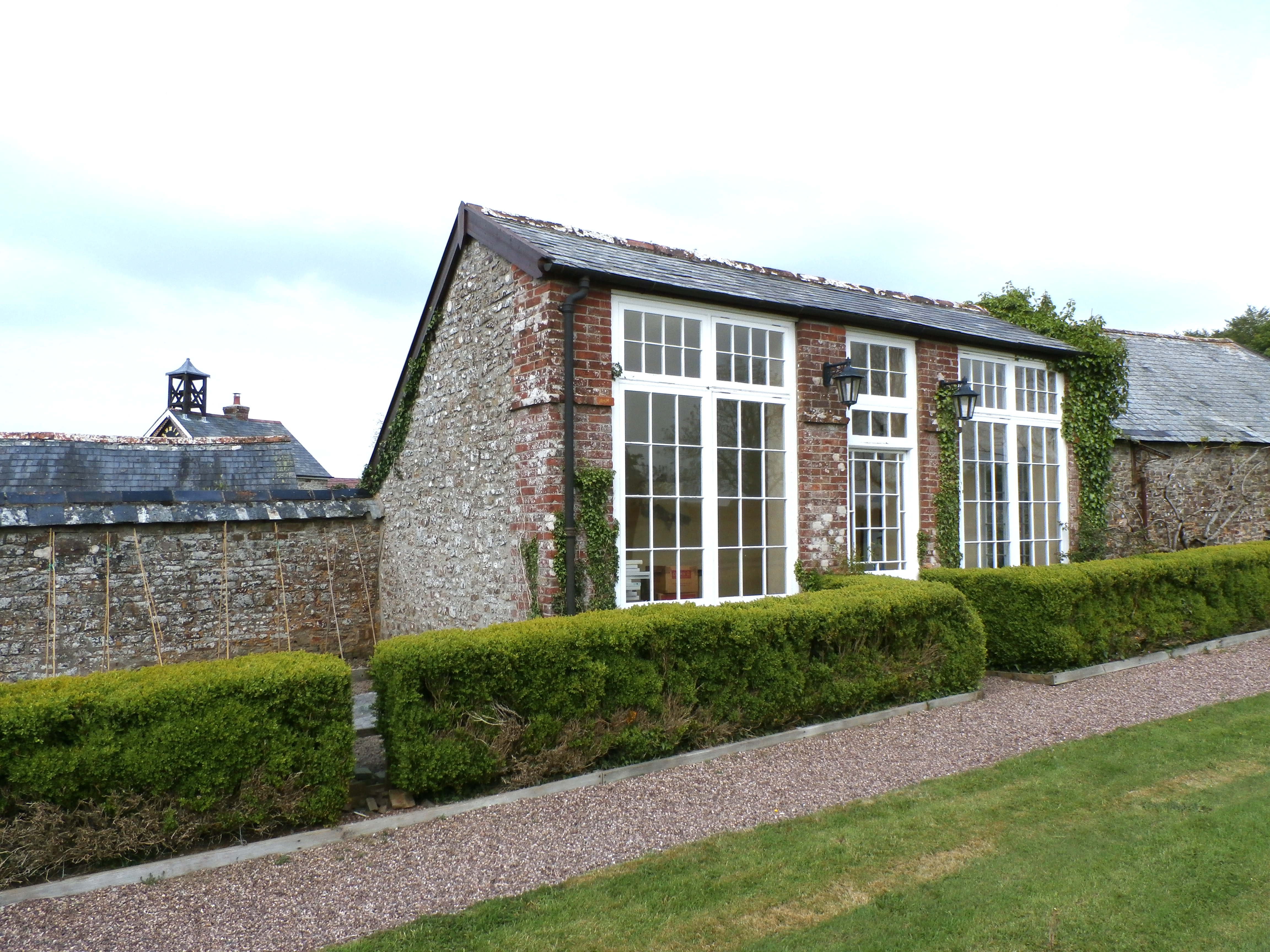 18th century orangery at Hudscott House, Chittlehampton, Devon. Bell tower of clockhouse visible in background